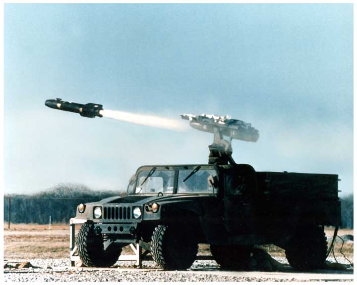 Ground Launched Hellfire-Light (GLH-L) missile system on a modified HMMWV chassis. The GLH system has an M988 high mobility, multipurpose wheeled vehicle (HMMWV) equipped with a GLH vehicle adapter kit. The missile was a ground-launched by gunners from the 2d Battalion, 27th Regiment, 7th Infantry Division (Light), Fort Ord, CA, during a Force Development Test and Experimentation for the U.S. Army Infantry School.